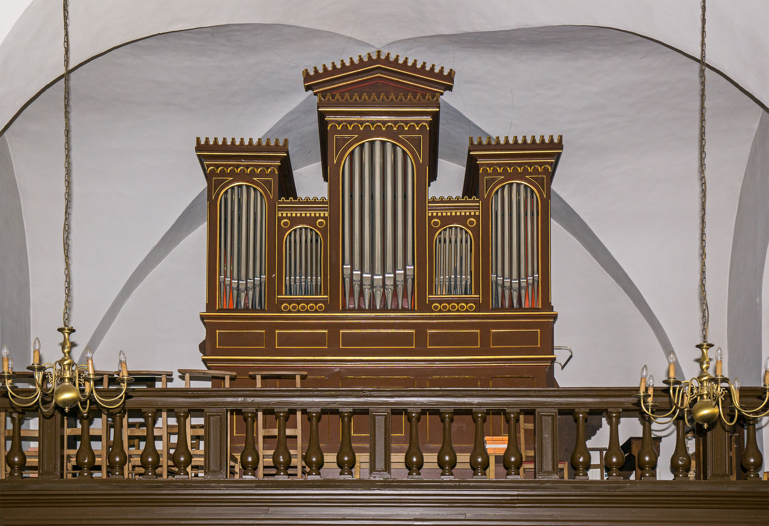 Pipe organ of the church in Esch-Sauer